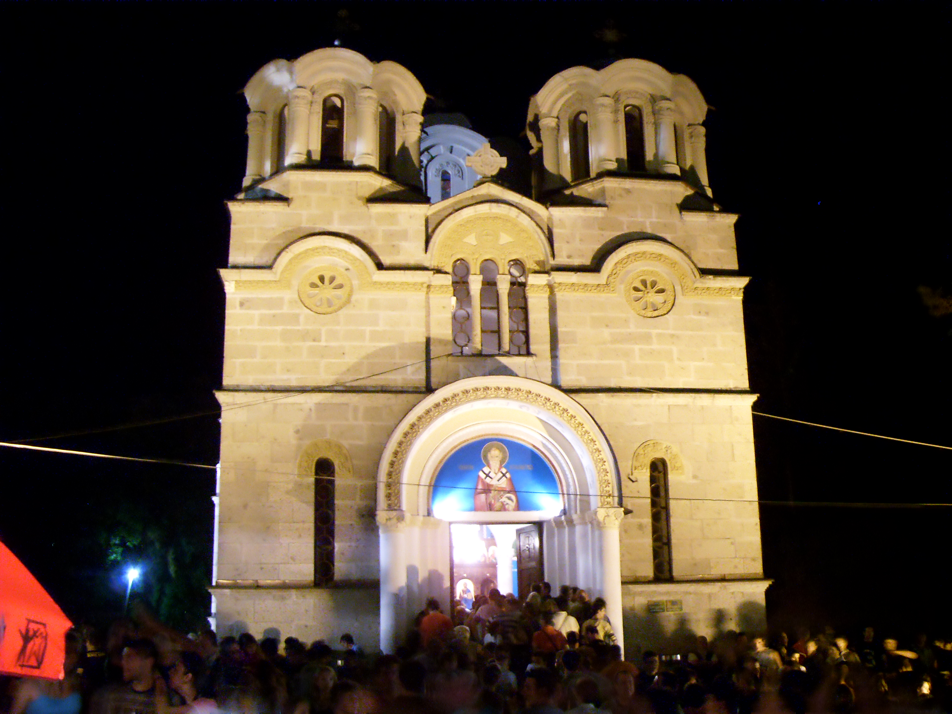 St Athanasius church in Lešok, Macedonia